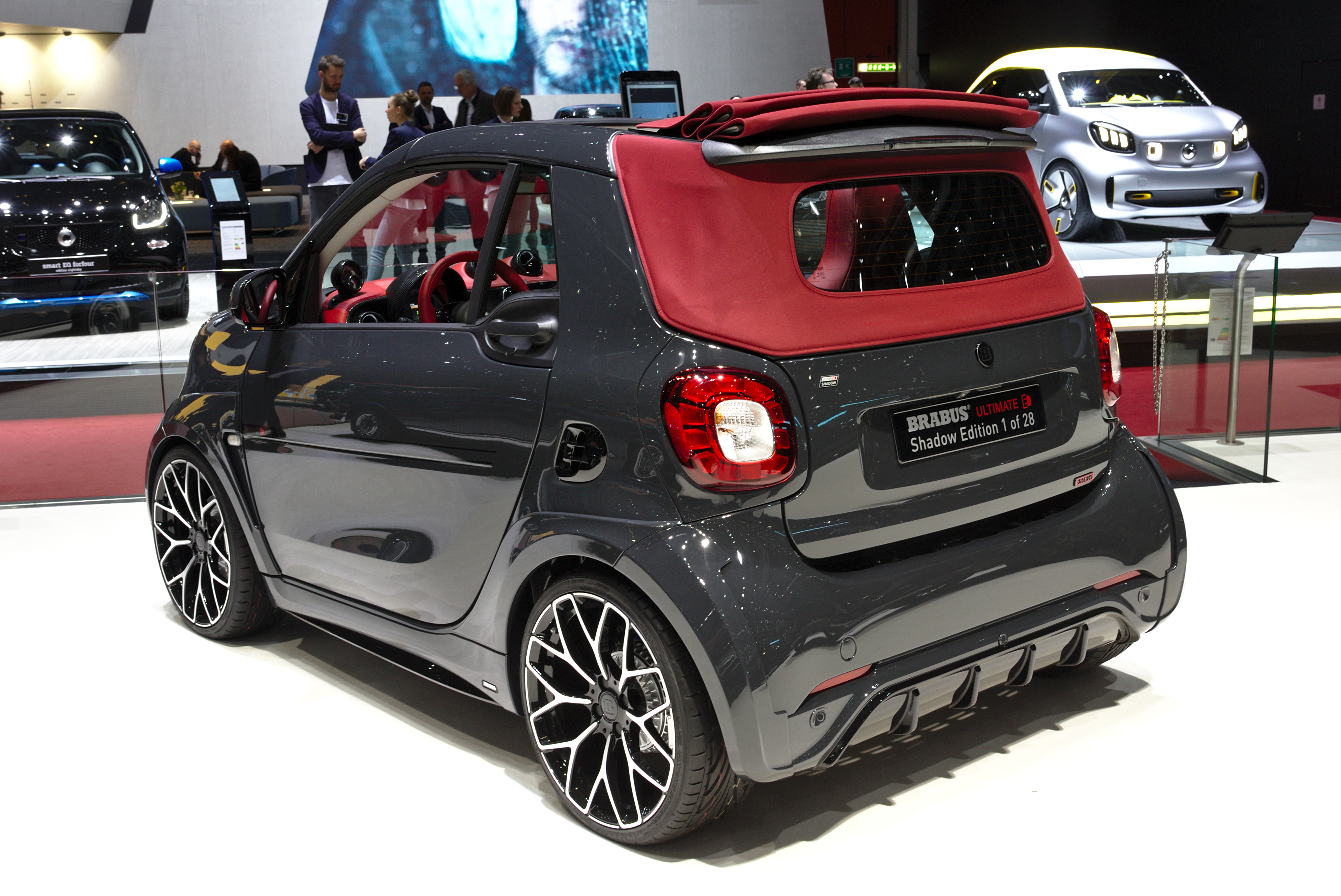 Brabus Fortwo Cabrio Ultimate E Shadow Edition 1 of 28 at Geneva Motor Show 2019